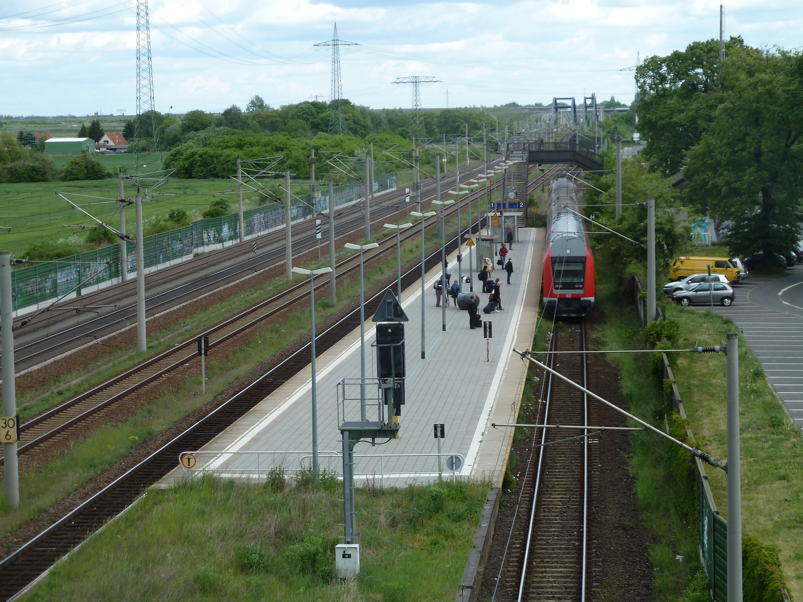 Wustermark station, seen from the Bundesstrasse 5 bridge